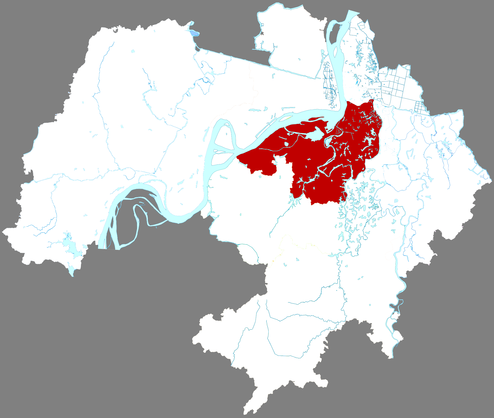 Location of Yijiang district in Wuhu city, China